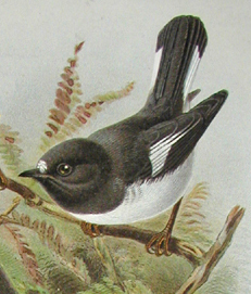 Petroica macrocephala toitoi, North Island Tomtit.